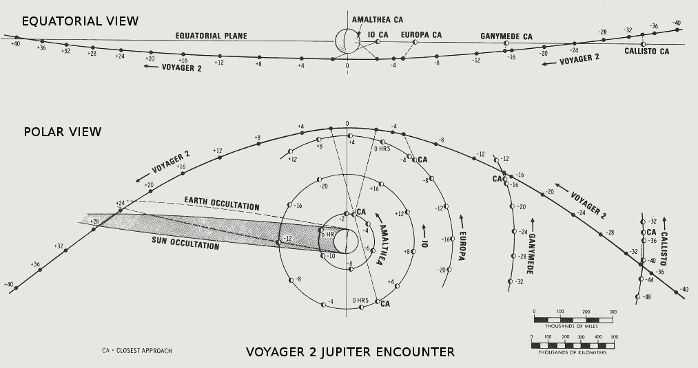 Voyager 2 trajectory in Jupiter System, July 7 - 11, 1979.